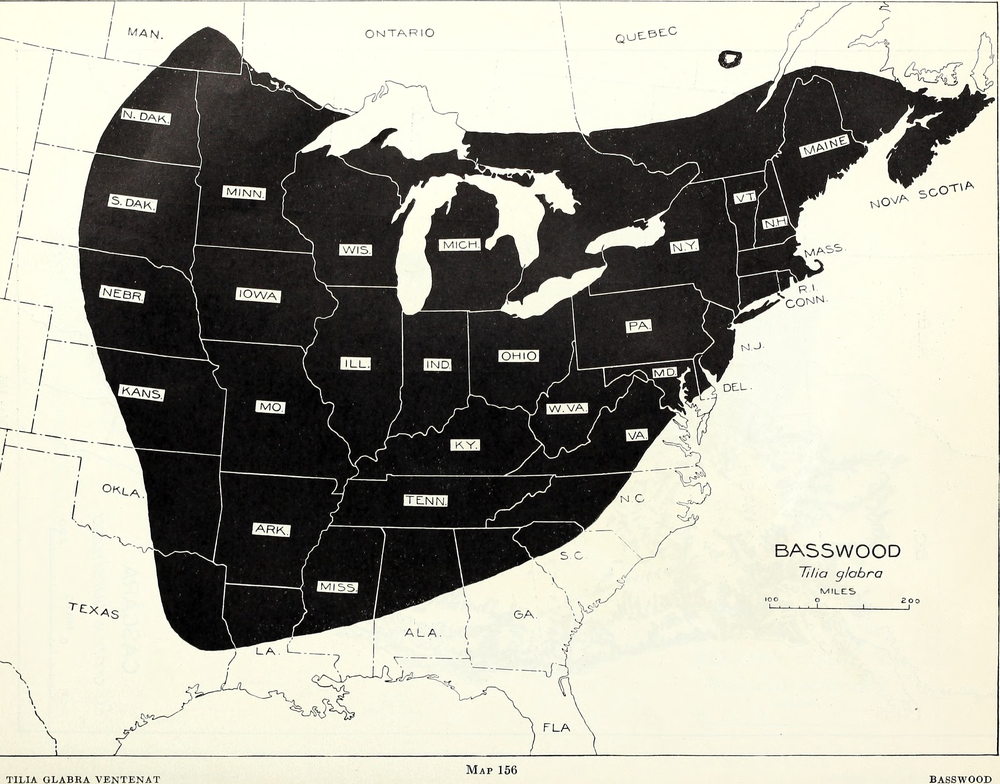 Title: The distribution of important forest trees of the United States Year: 1938 (1930s) Authors: Munns, E. N. (Edward Norfolk), 1889-1972 Subjects: Forests and forestry; Trees Publisher: Washington, D. C. : U. S. Dept. of Agriculture Text Appearing Before Image: 160 Text Appearing After Image: '